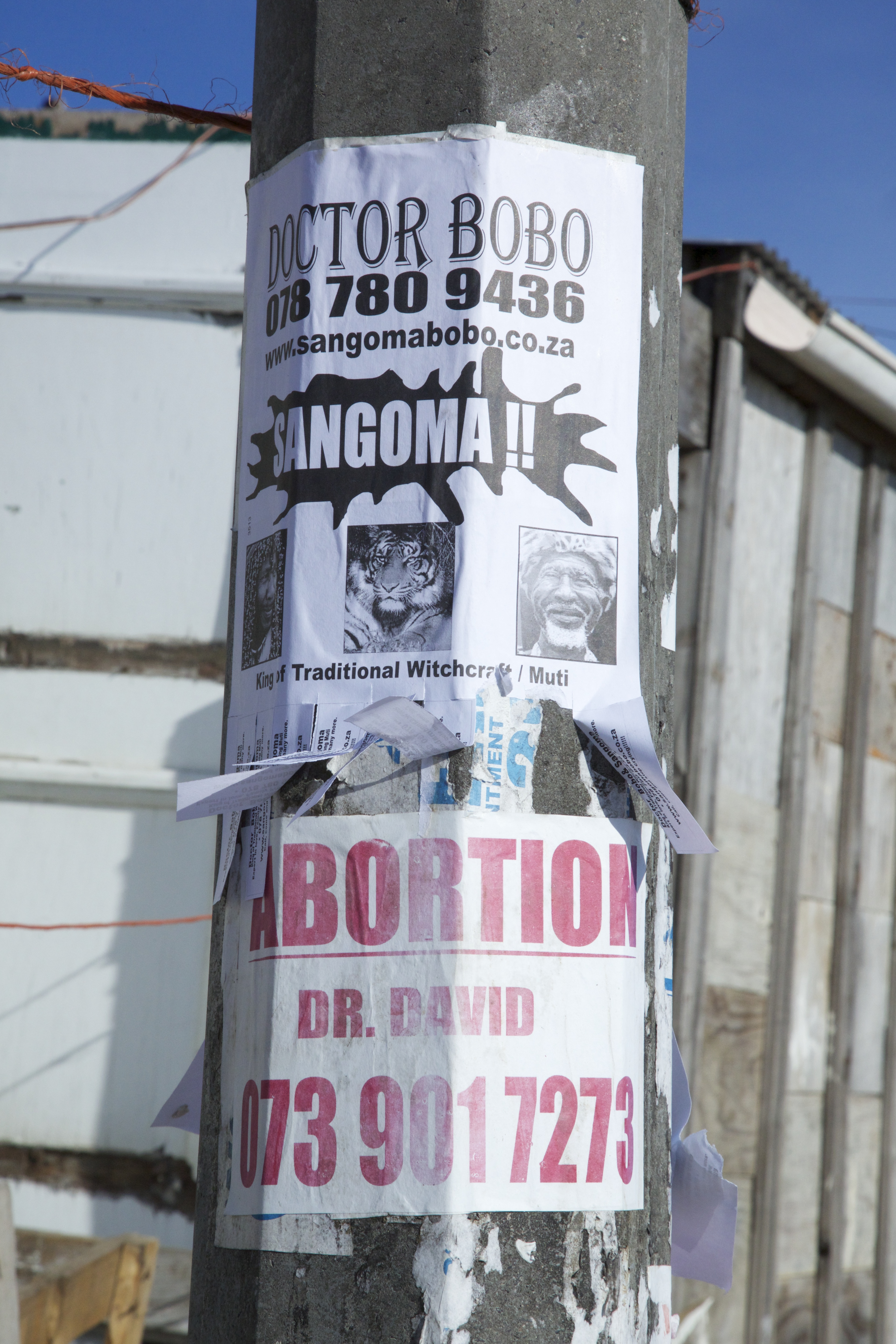 An image of two street flyers pasted on a pole in Joe Slovo Park, Cape Town, South Africa